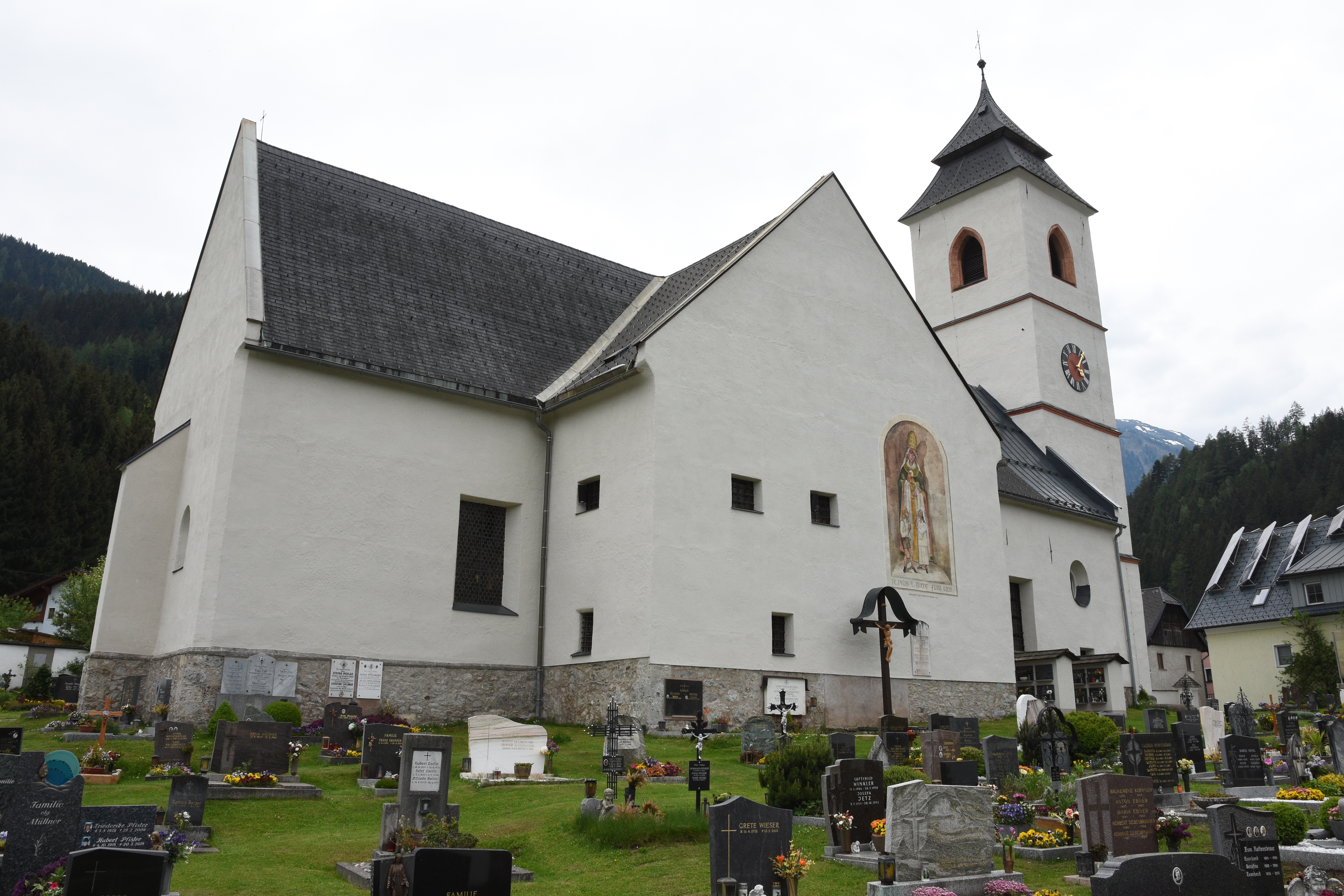 Church Pfarrkirche St. Lorenzen (Trieben)